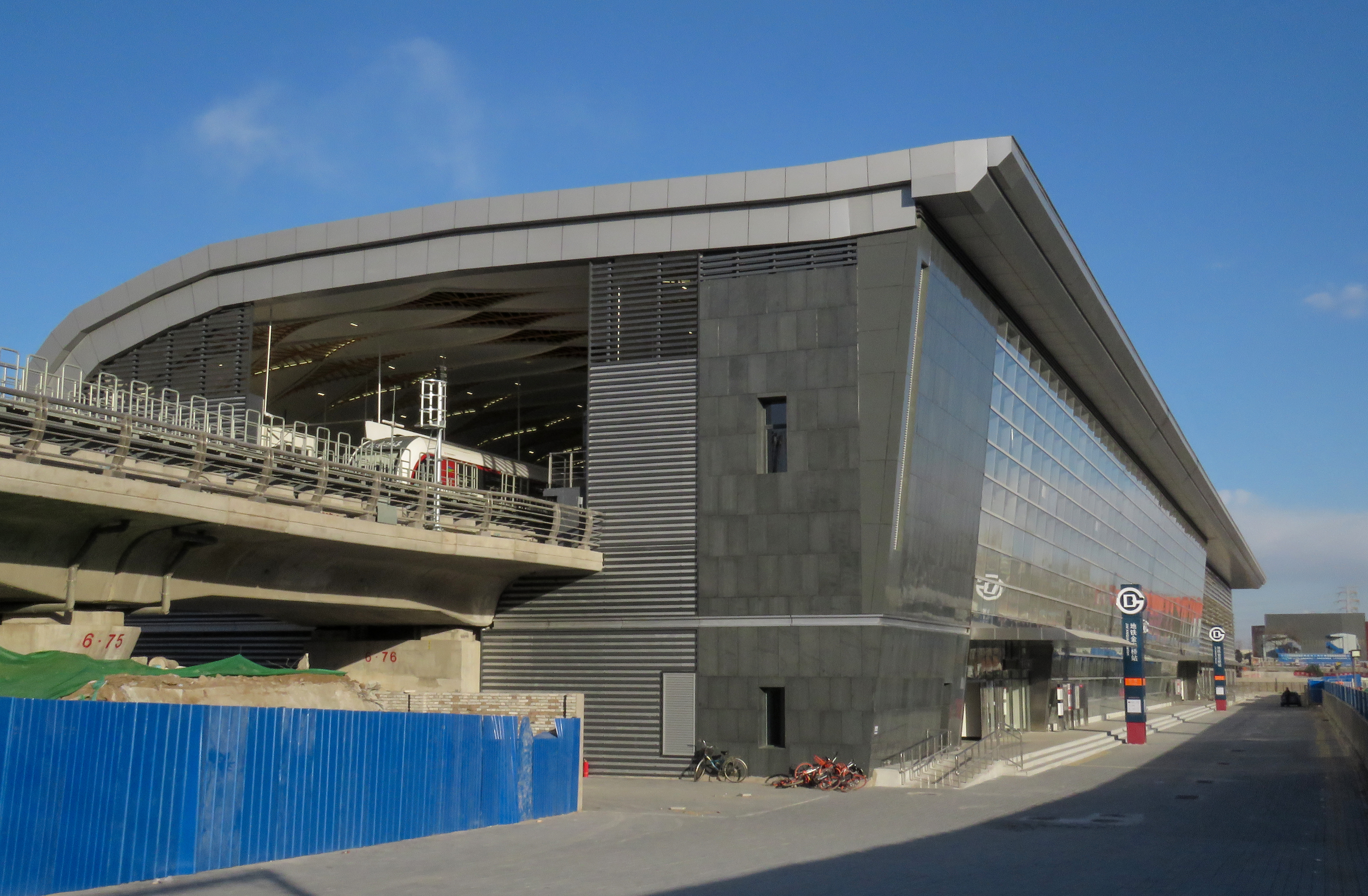 Passengers have to cross a culvert to reach the entrance.